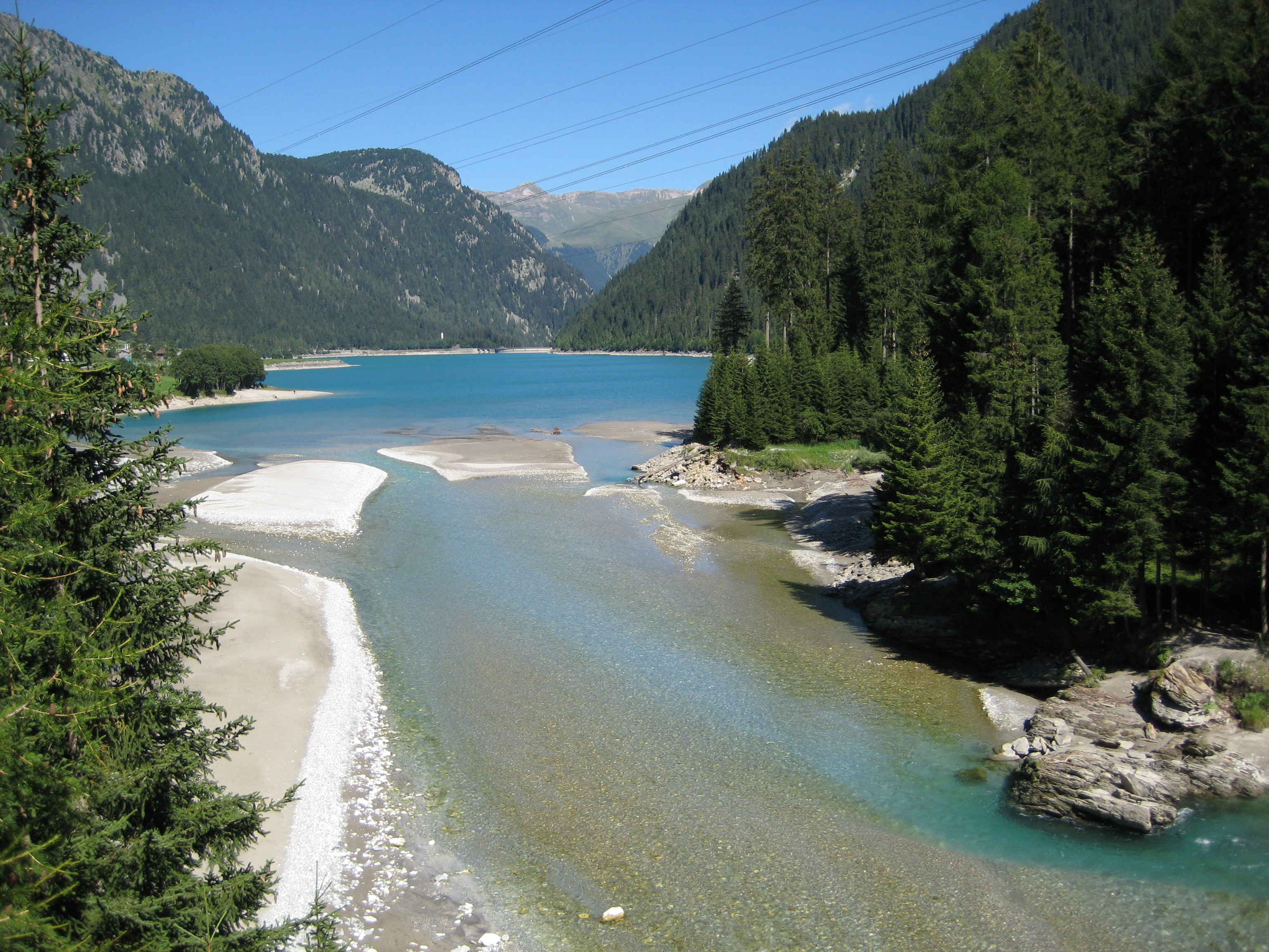 Sufnersee